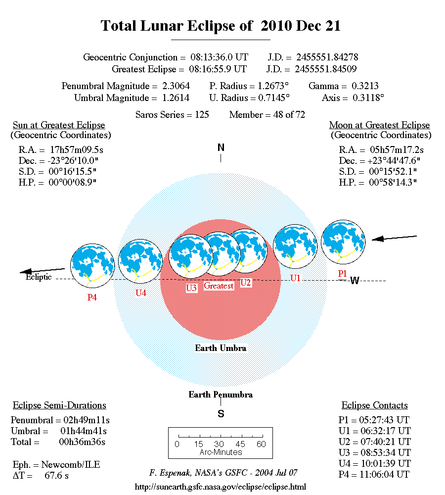 Sketch of the 2010-12-21 lunar eclipse.